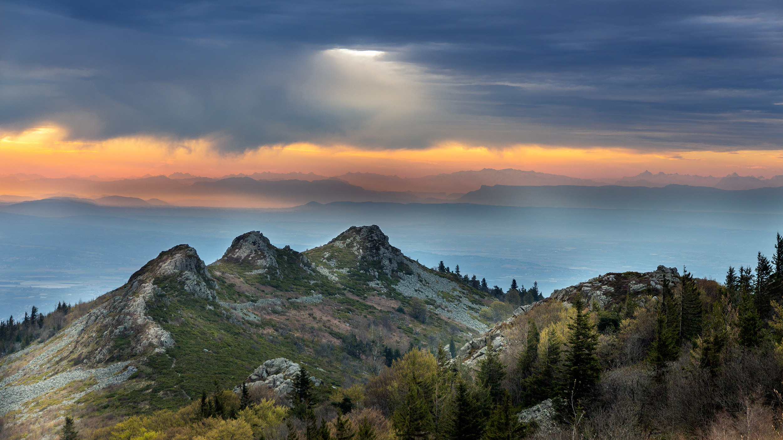 Parc naturel régional du Pilat